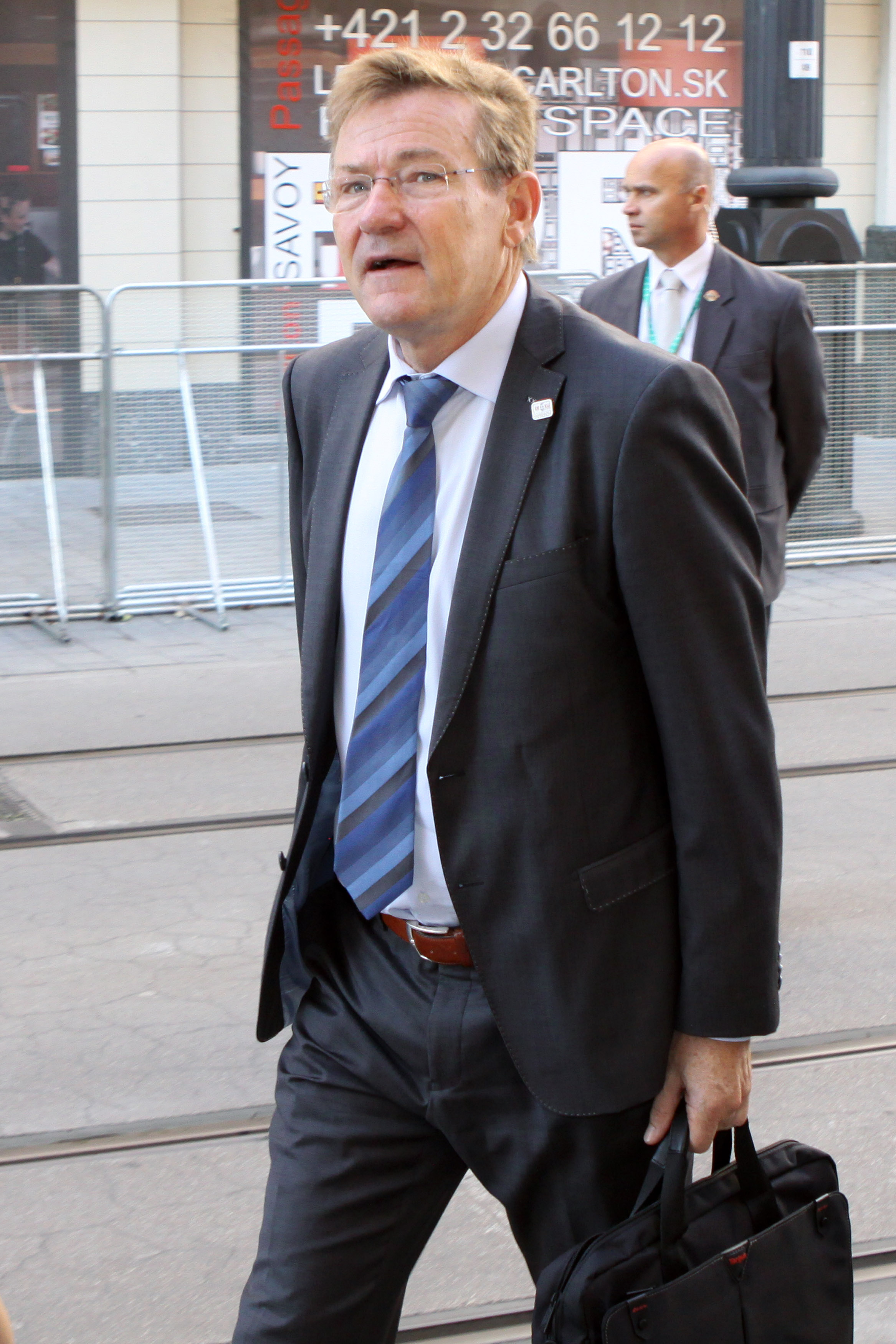 Belgium, Mr. Johan Van Overtveldt, Minister of Finance Informal Meeting of Ministers for Economic and Financial Affairs (Informal ECOFIN) Photo: Andrej Klizan